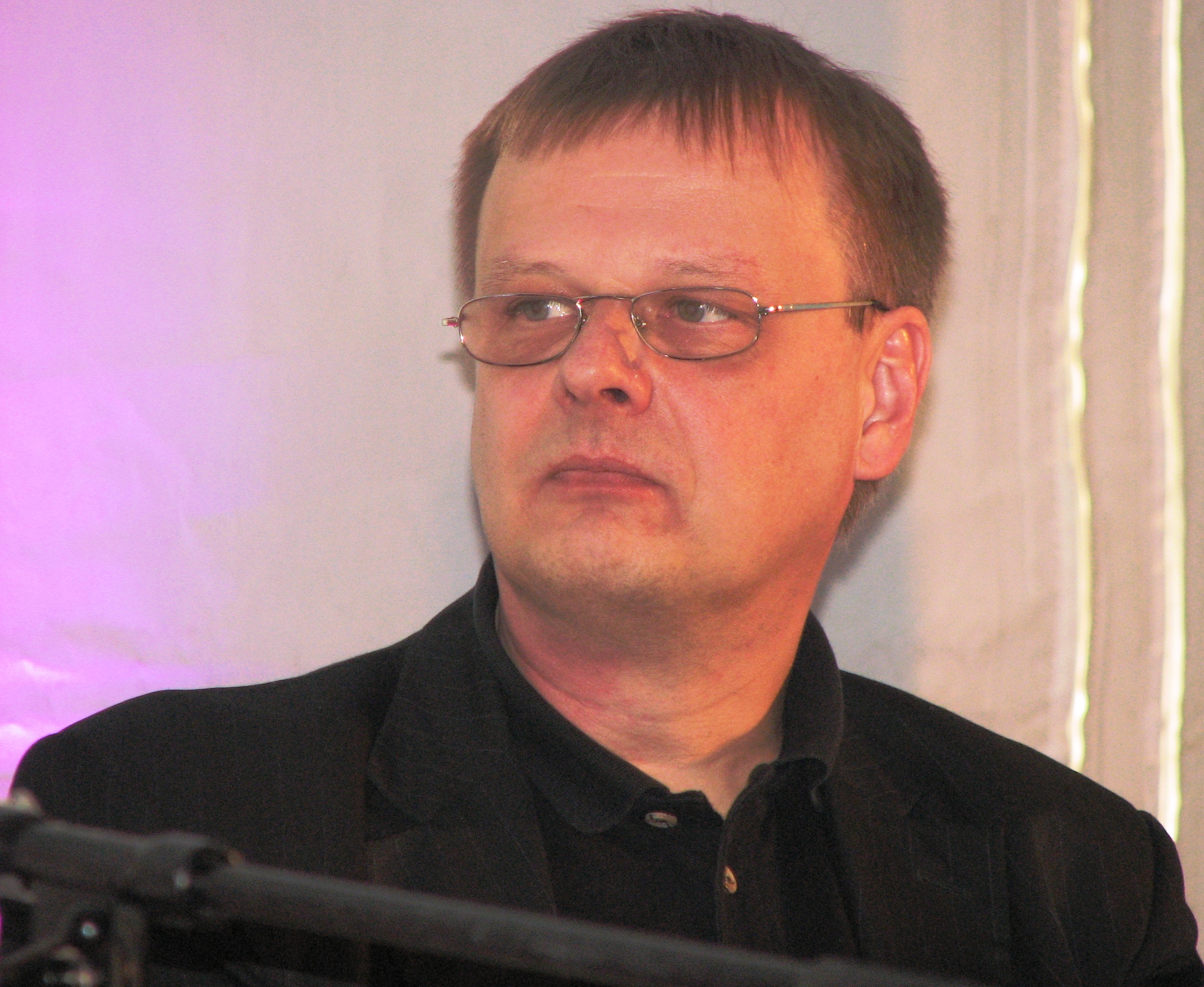 Jaan Ross in Tallinn Literature Festival HeadRead 2010